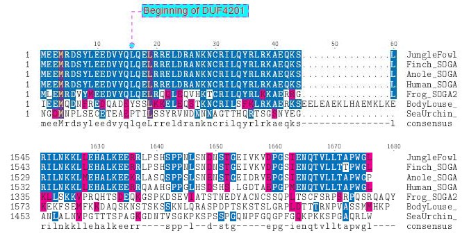 Difference in conservation between the N-terminal region and C-terminal region of SOGA2. Multiple sequence alignment created using CLUSTALW